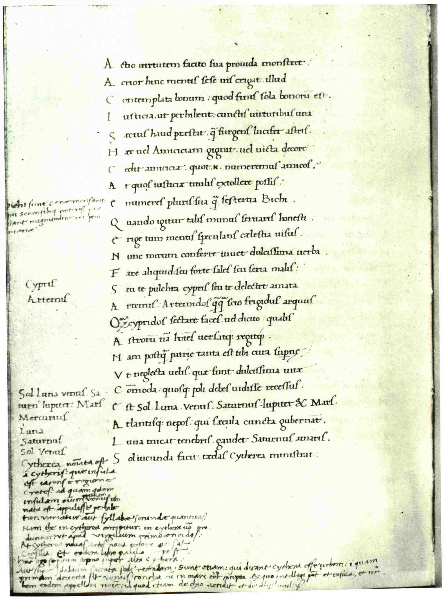 Filelfo’s satires in the manuscript Vienna, Österreichische Nationalbibliothek, Cod. 3303, fol. 140v.